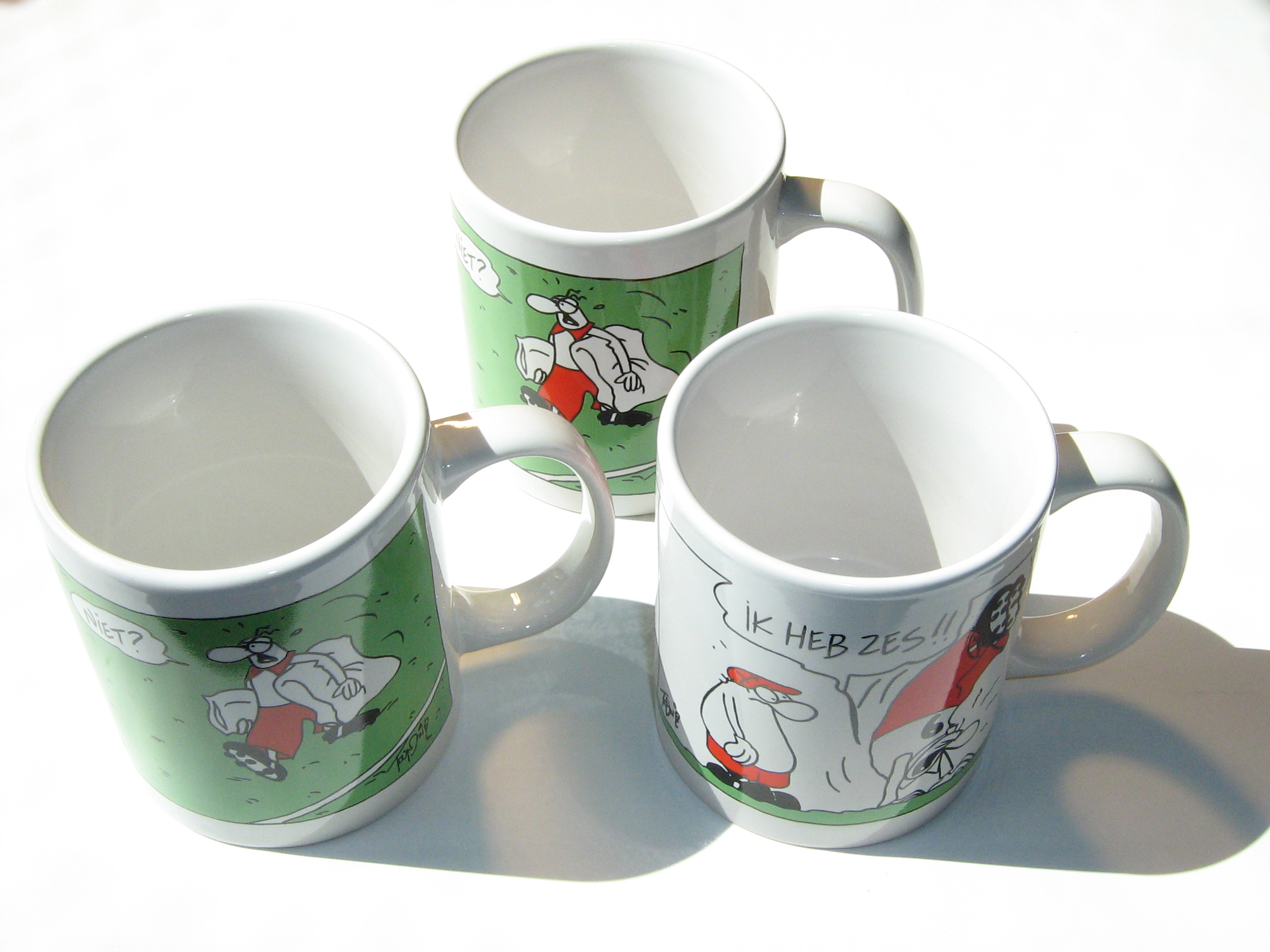 Mugs, with dutch cartoon 'F.C. Knudde'.